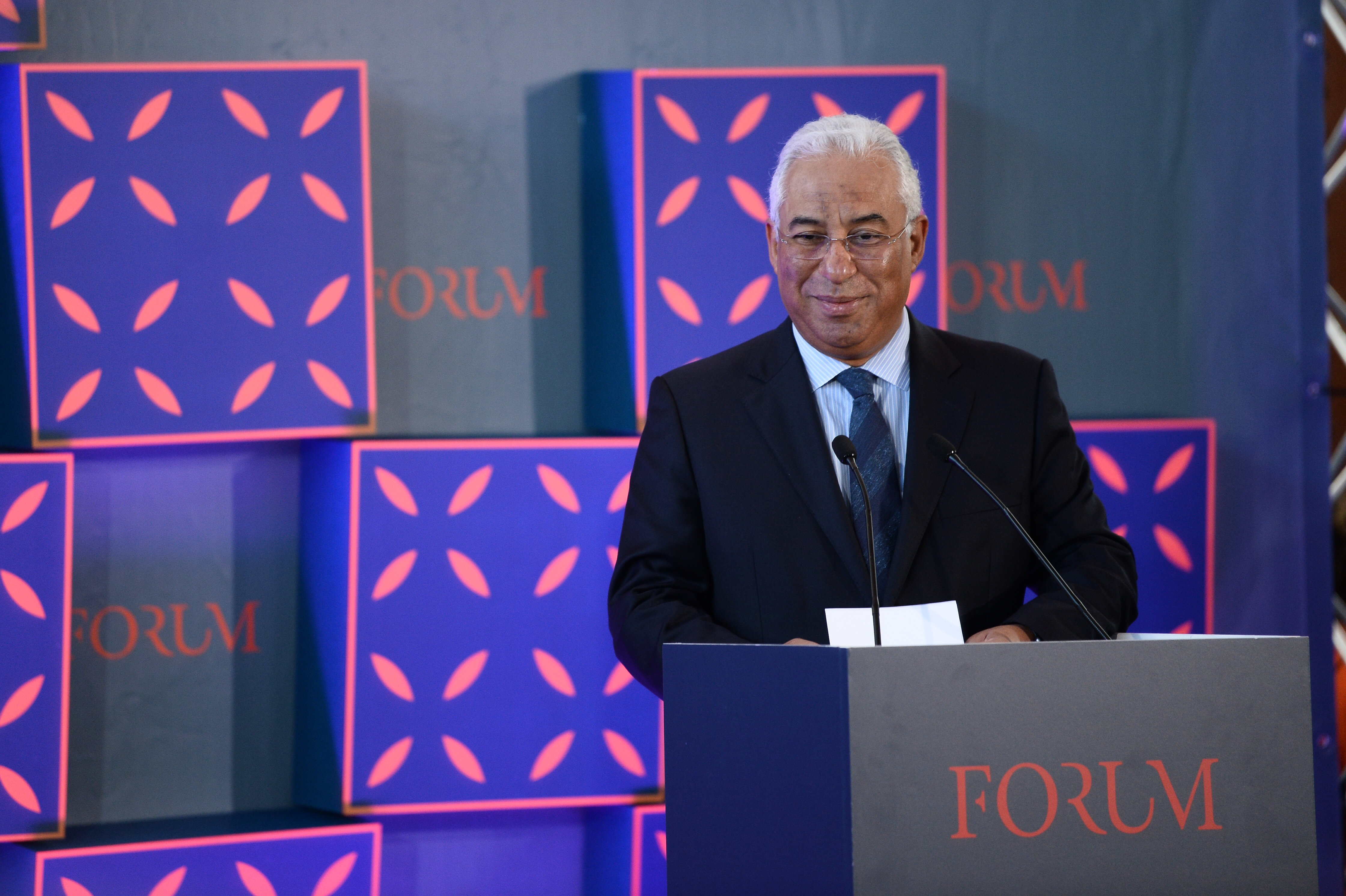 7 November 2017; António Costa, Prime Minister, Government of Portugal, on Forum Stage during the opening day of Web Summit 2017 at Altice Arena in Lisbon. Photo by Diarmuid Greene/Web Summit via Sportsfile